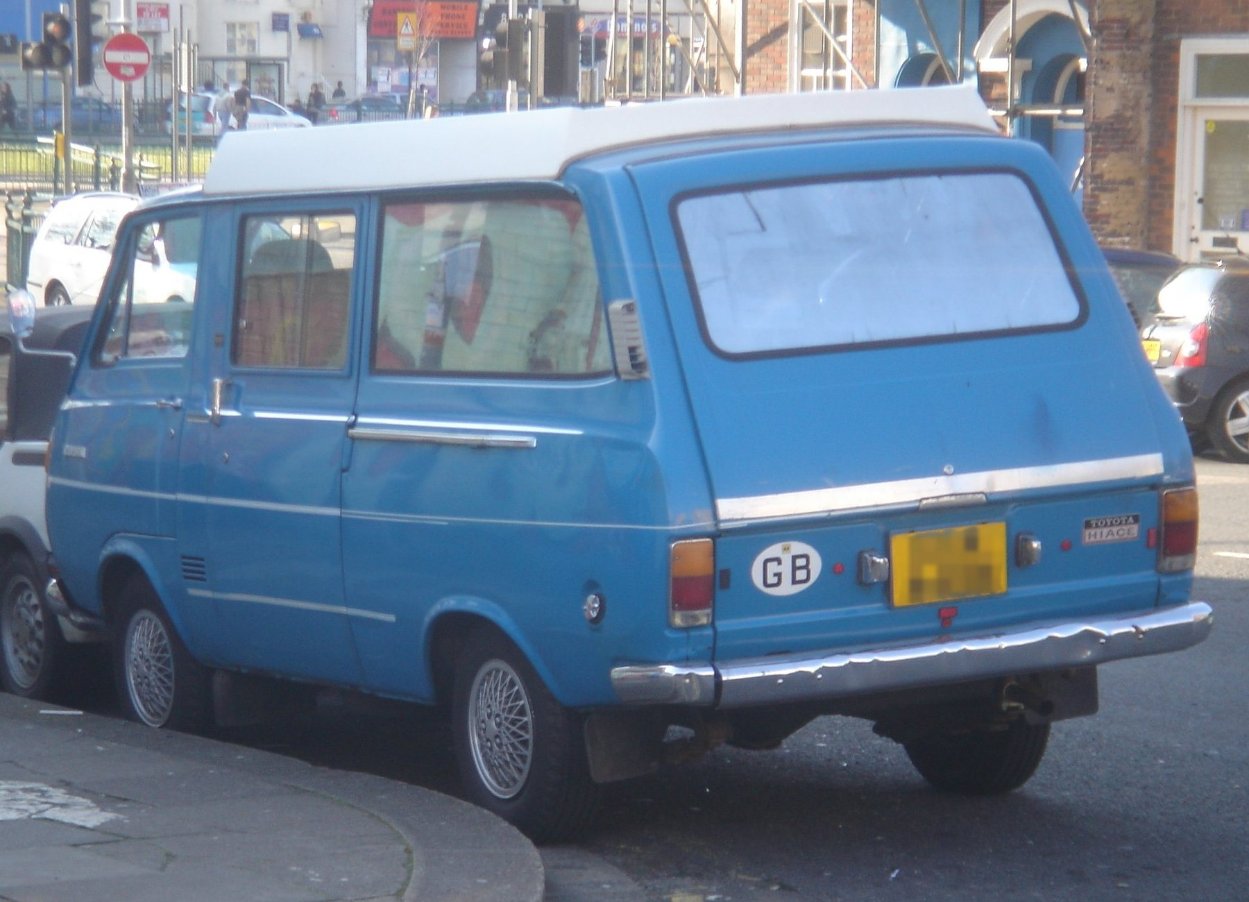 A 1st generation Toyota Hiace van seen in Brighton, England. Courtesy blanking of registration plate, but it is N-registered (1974).